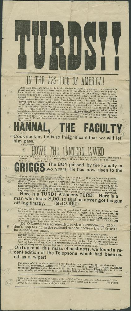 Bogus written and distributed by Indiana University students in 1890